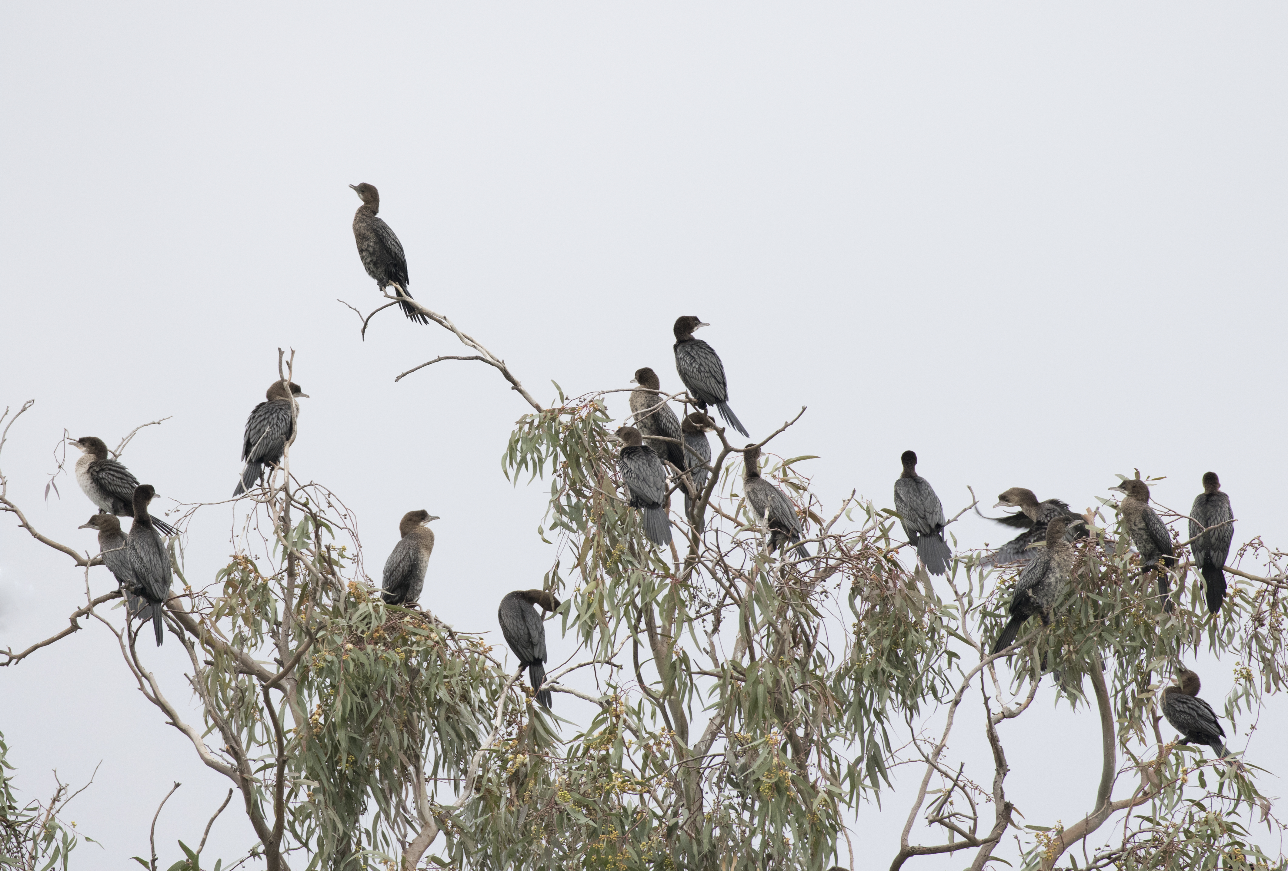 A flock of Pigmy Cormorants (Microcarbo pygmeus) perching on top branches of an eucalyptus tree at Eskibaraj Dam Lake. Adana, Turkey.